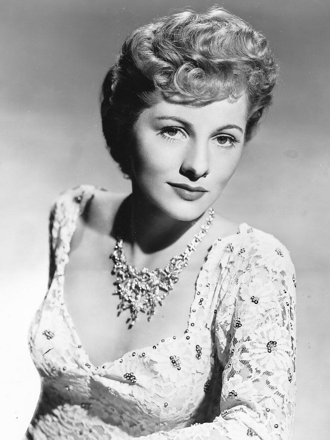 Joan Fontaine in The Constant Nymph, 1943.